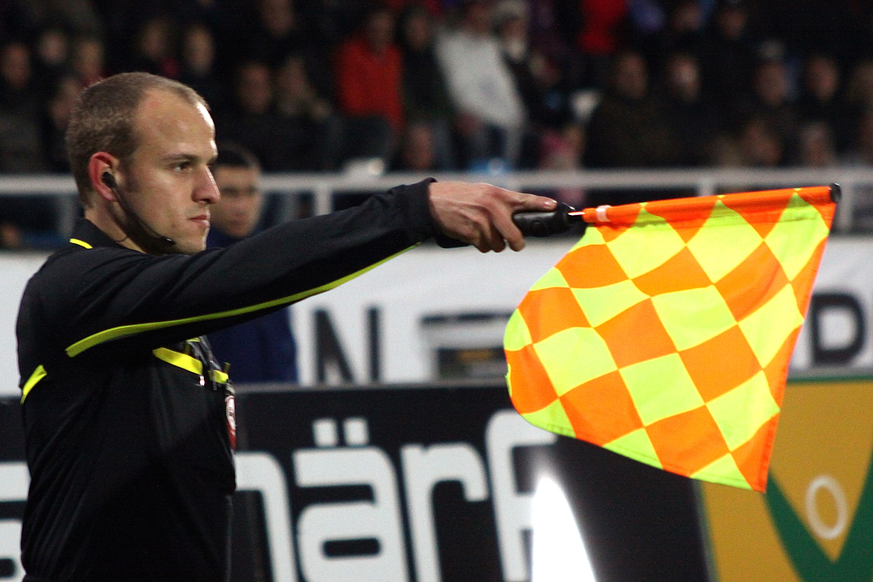 Clemens Schüttengruber, Referee of Austria; here as assistent referee, showing the position of an offside